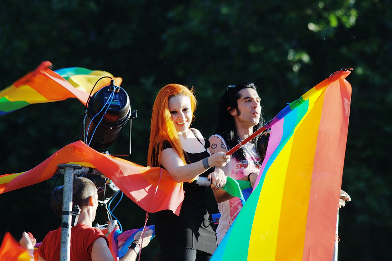 Alaska, singer famous in Spain and Latin America, at the streets of Madrid (Spain) during the 2008 LGBT pride parade.